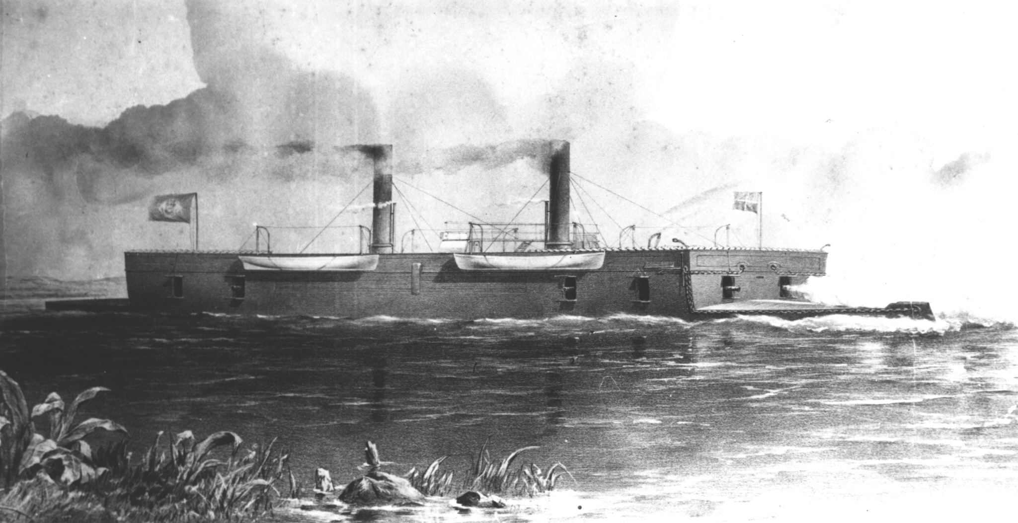 Brazilian Ironclad Cabral, launched in 1866, and built by J.A.C. Rennie of Greenwich.